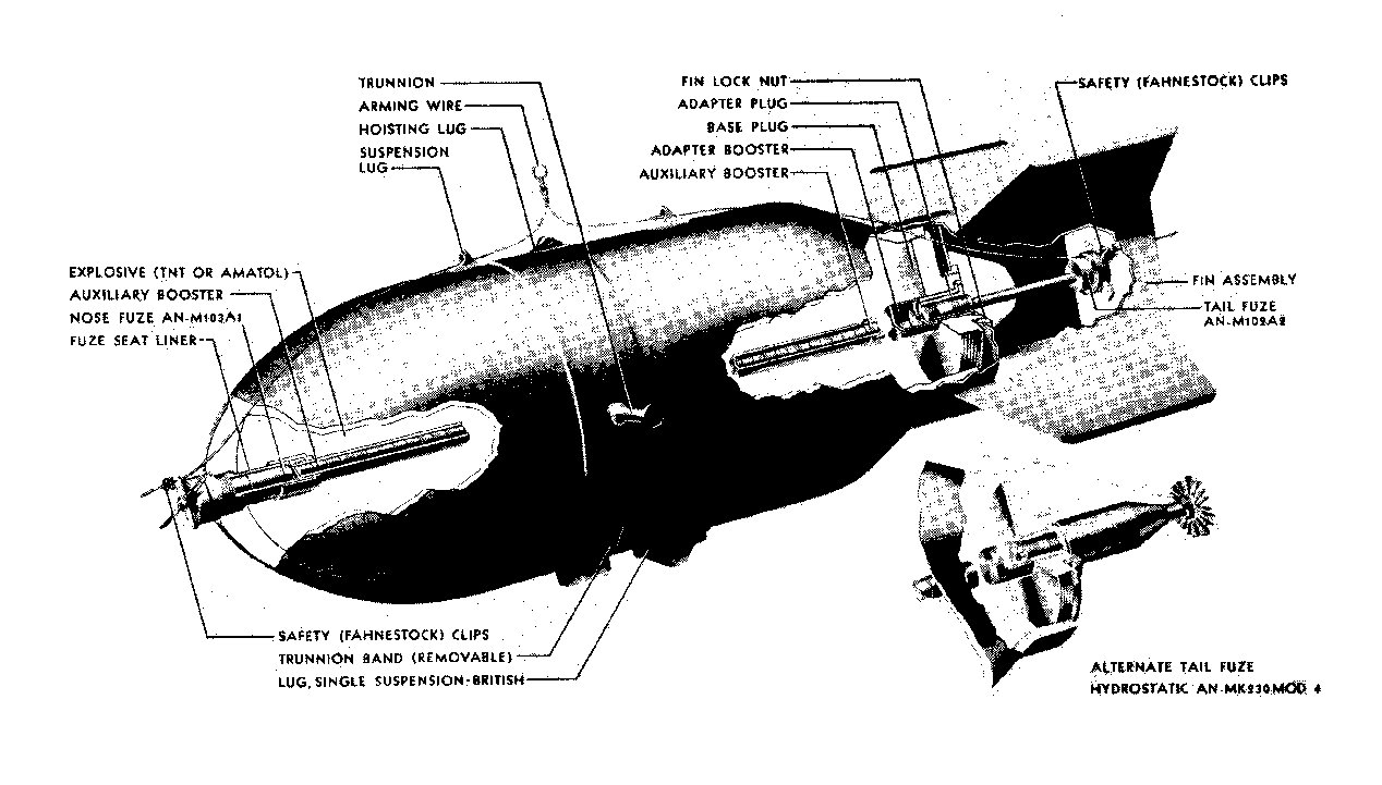 US BOMB, 1000 Lbs, GP (472 kg, containing 270 kg Amatol)